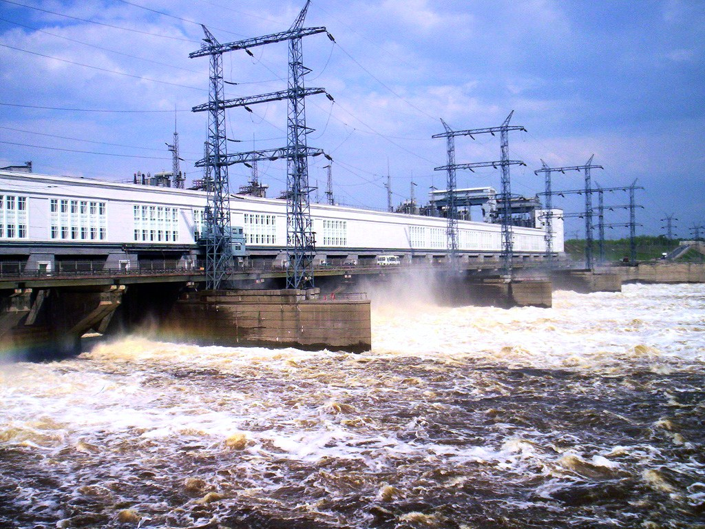 Hydro-electric plant KamGES in Perm